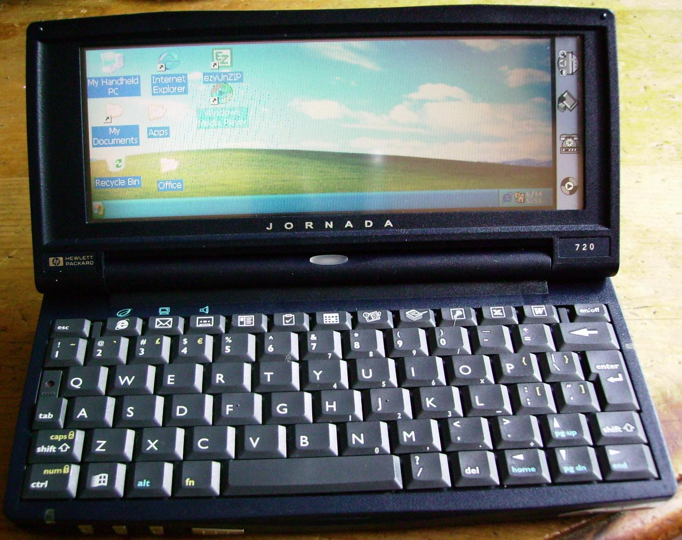 A HP Jornada 720 Handheld PC using Gigabar (software that replaces the regular taskbar) to make the Windows XP theme.